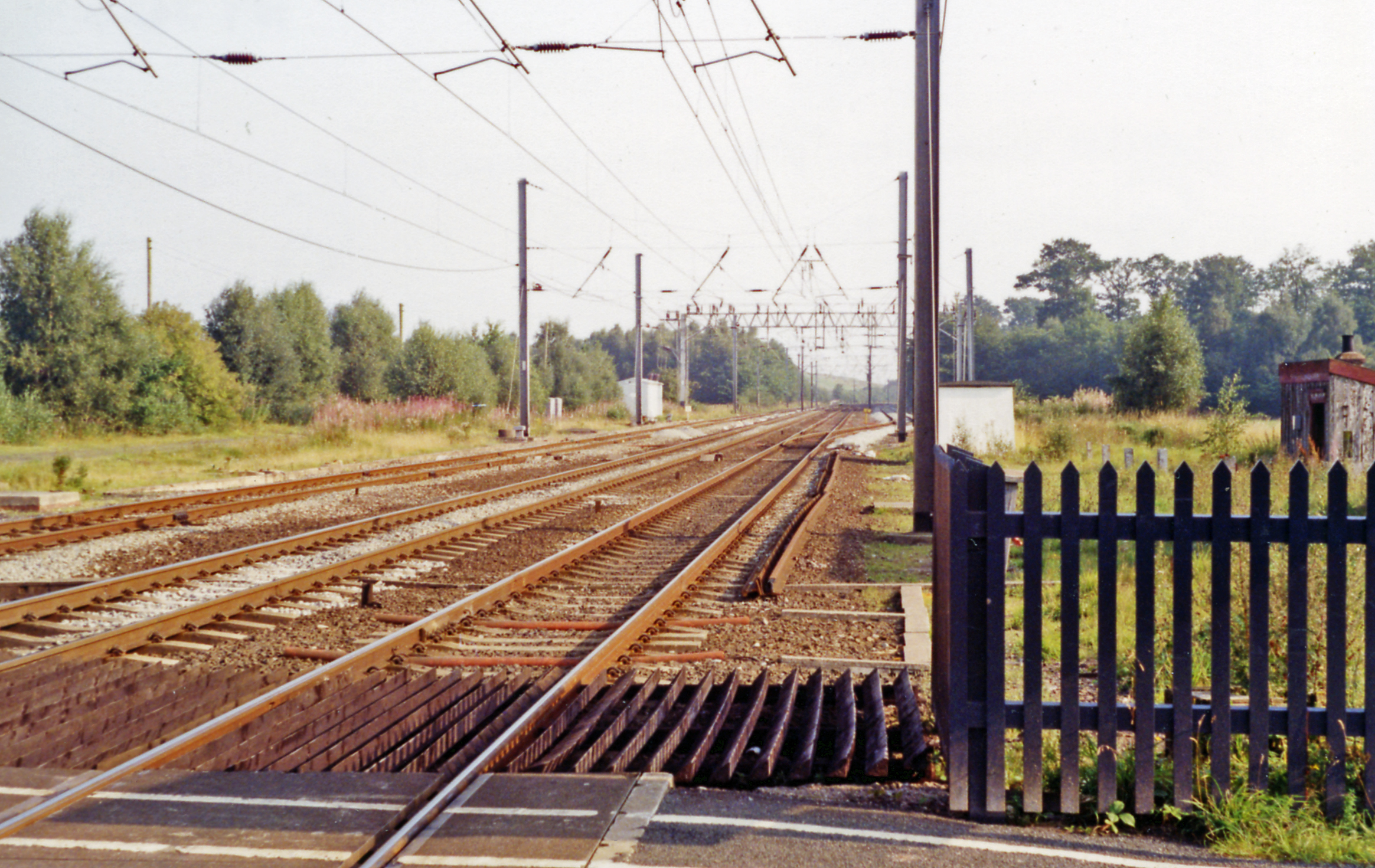 Site of Floriston station, 1991. View SE, towards Carlisle and the South: ex-Caledonian Railway Carlisle - Glasgow, Edinburgh etc., West Coast Main Line, electrified 1974. Most of the first nine miles out of Carlisle to Gretna Junction were only double-track and as they also carried the ex-G&SWR main line traffic, this was and remains an exceptionally busy section and it is remarkable how they managed, even after the two intermediate wayside stations, Rockcliffe and Floriston, were closed in July 1950.